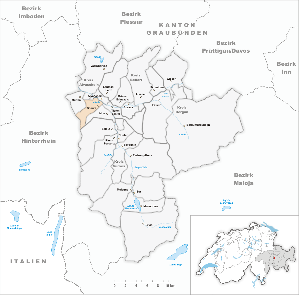 Municipality Stierva